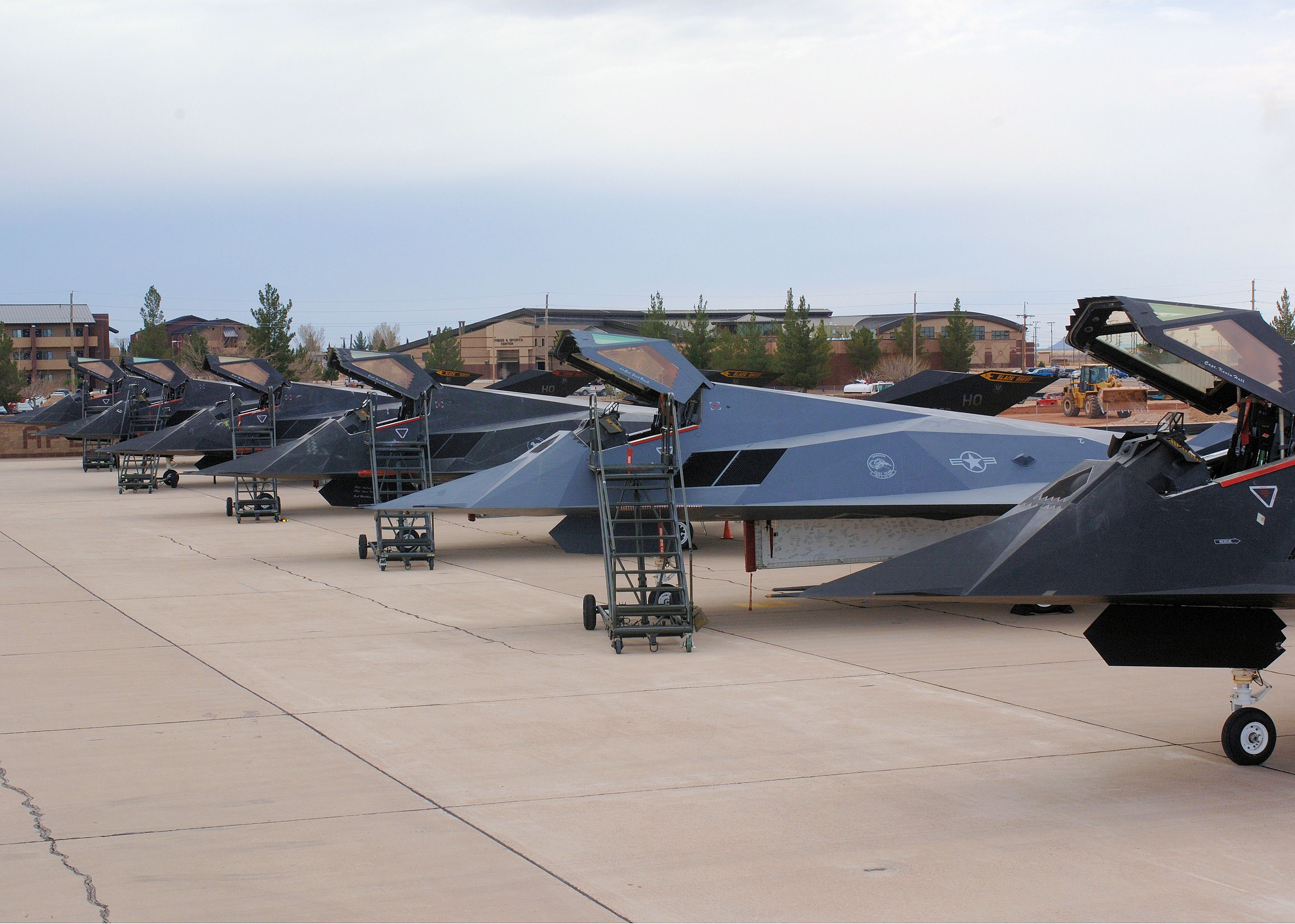 The first six F-117A Nighthawks of the 8th Fighter Squadron are prepared for their final flight before taking off to Tonopah Test Range Airport, Nev., March 12. (U.S. Air Force photo by Airman 1st Class John Strong)